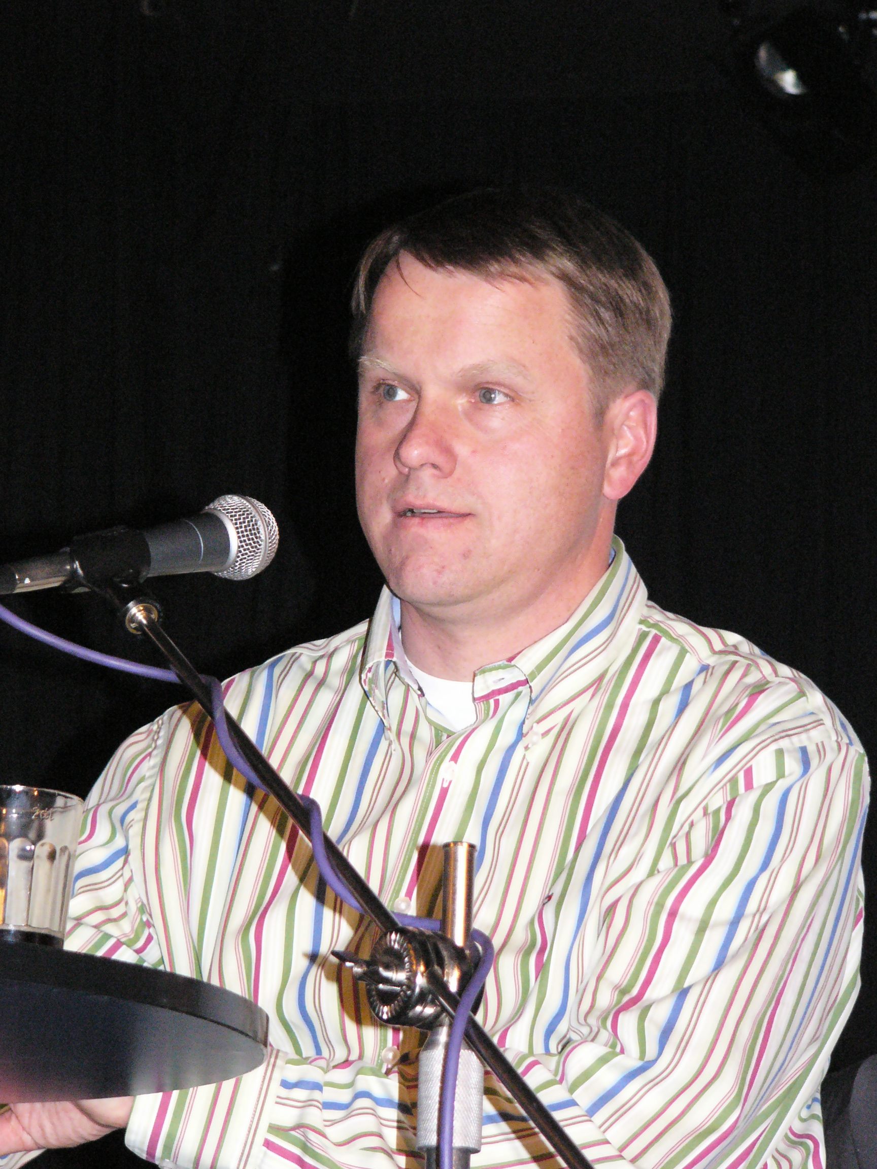 Minister Martin Bursík. (Red eyes effect removed.